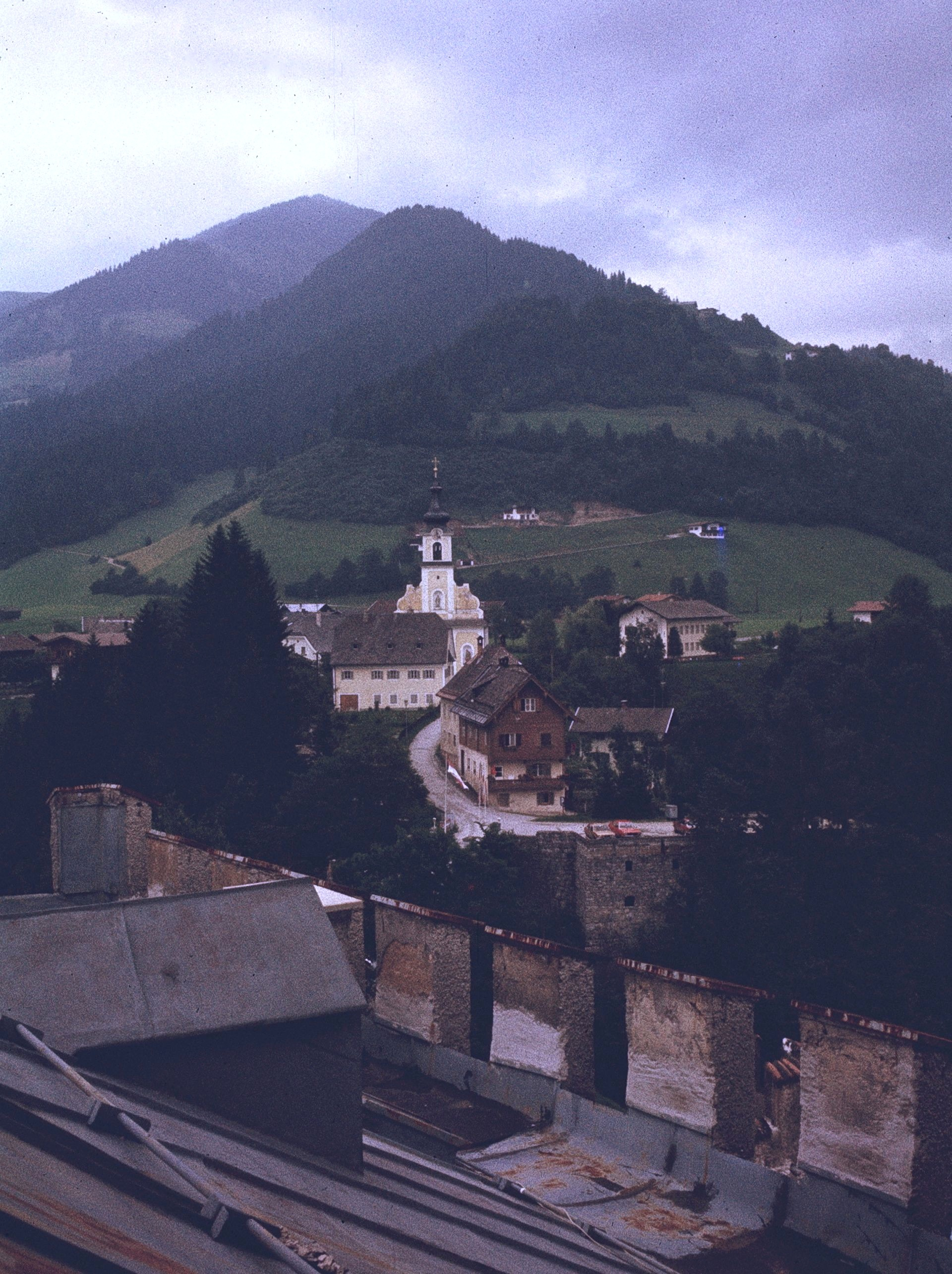 Looking towards the town of Itter, Tirol, from the tower of Itter Castle in 1979.